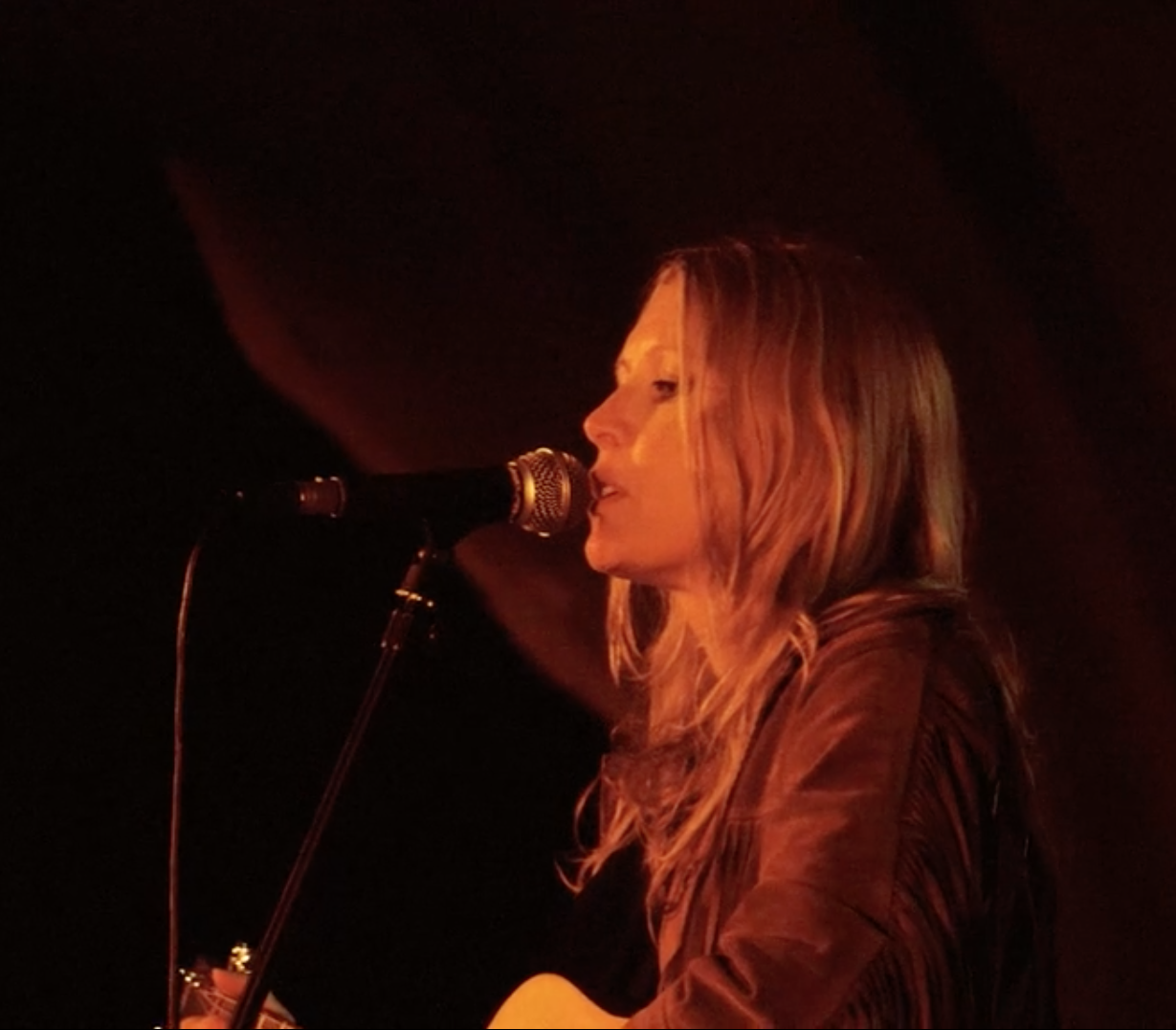 Amy Odell at The Byline Festival 2018